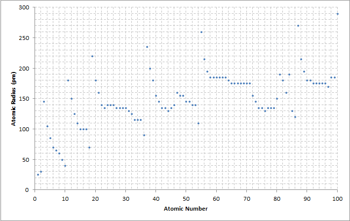 A graph comparing the atomic radius of elements with atomic numbers 1-100. Accuracy of ±5 pm. Data is from the Wikipedia Atomic Radius page and US Government sites.